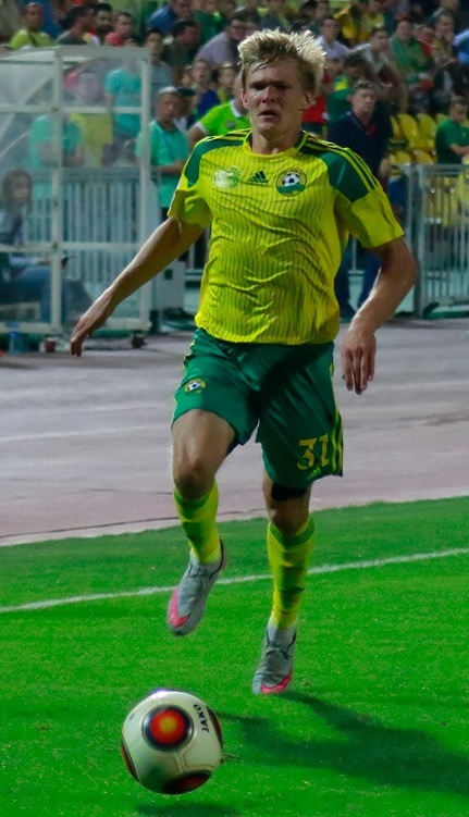 Yuri Zavezyon with FC Kuban Krasnodar in a Russian Cup game against FC Spartak Moscow.